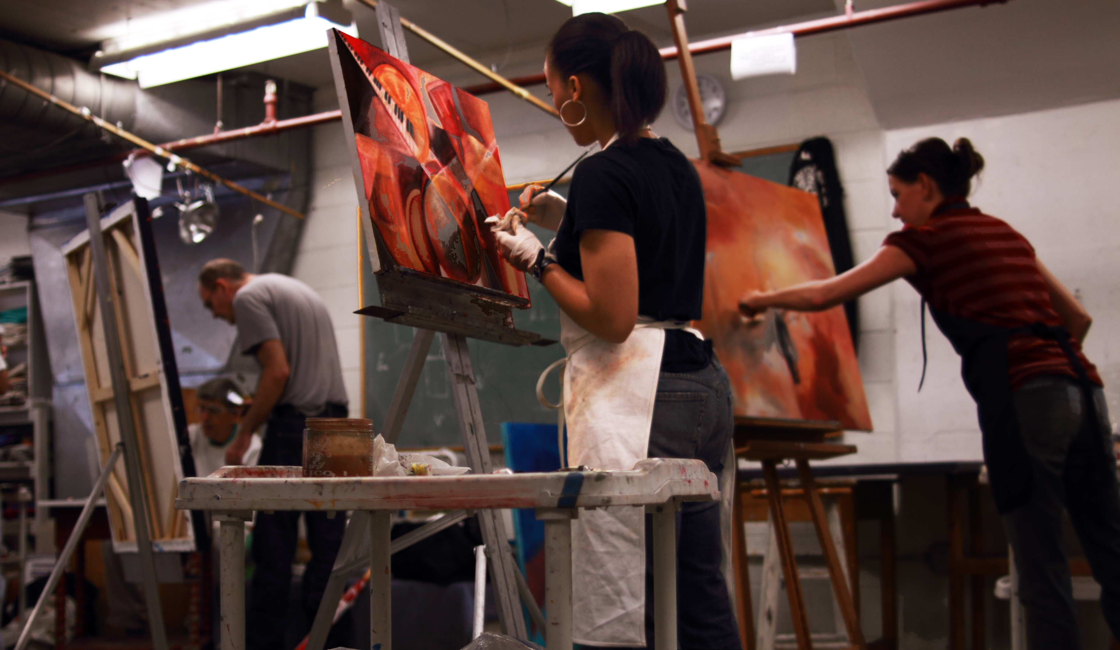 The Art League School offers classes in painting, seen here, and other subjects including photography, sculpture, ceramics, drawing, fiber arts, jewelry, and printmaking.